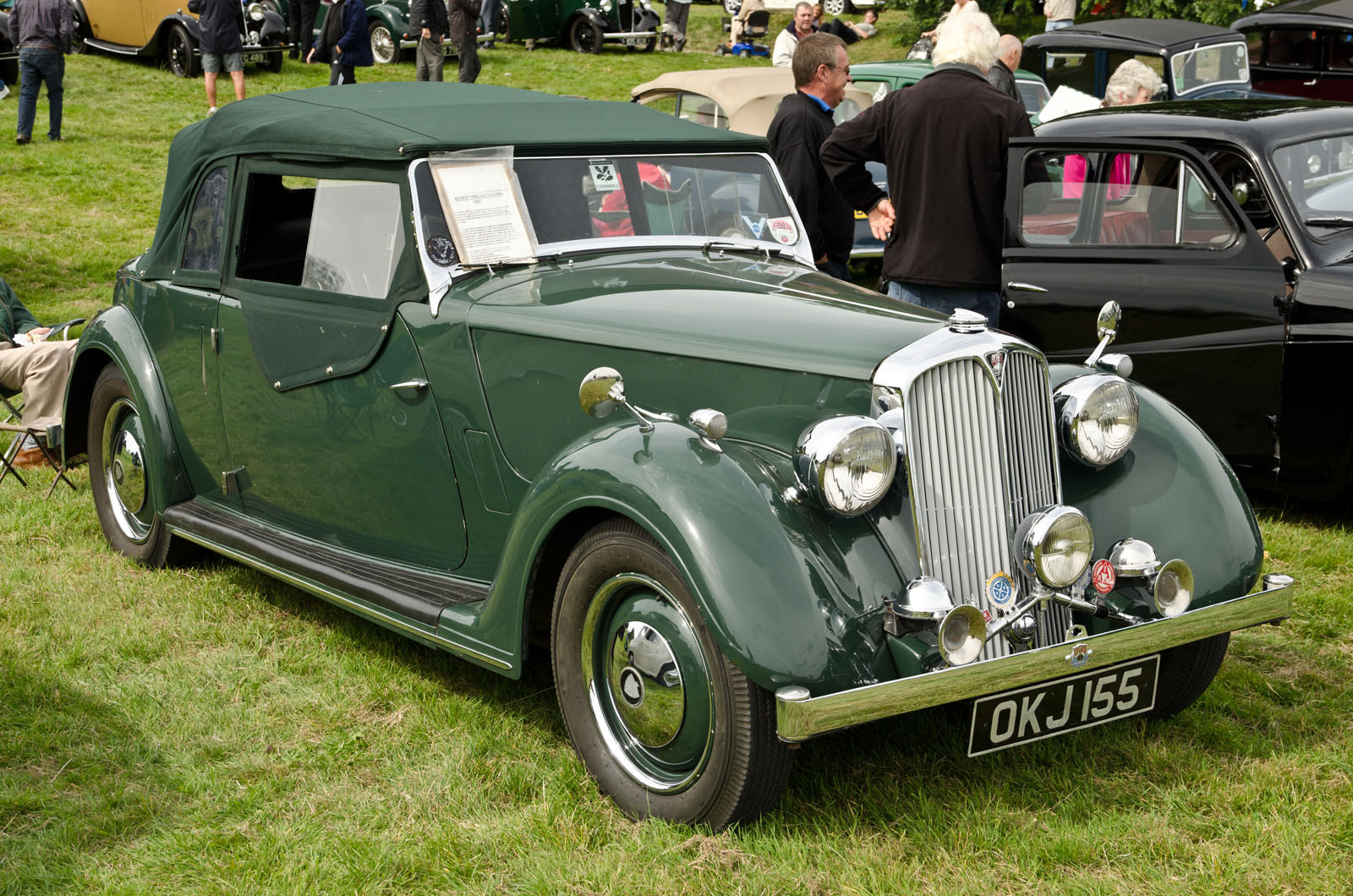 Rover 12 Tourer 1947 (DVLA) manufactured 1947, 1500ccCholmondeley Classic Car Show 01/09/2013